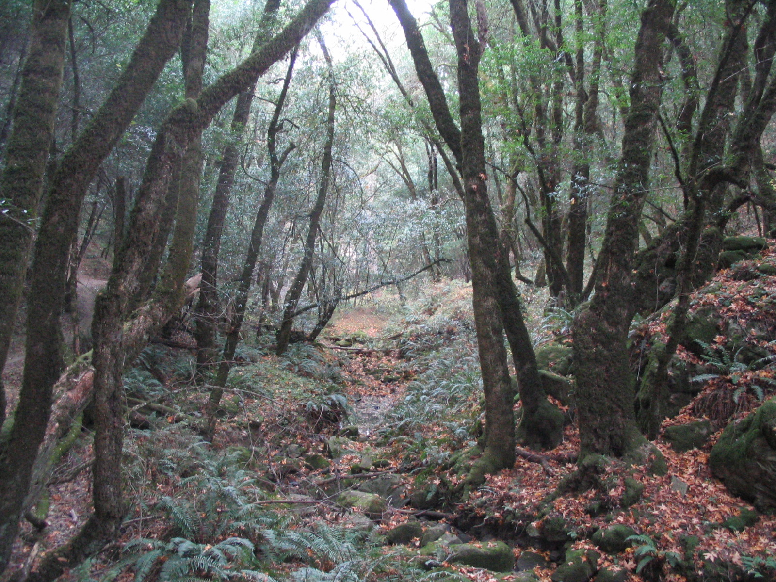 Fallen leaves and Polystichum munitum ferns along dry Peters Creek. View from Peters Creek Trail in Long Ridge Open Space Preserve of the Midpeninsula Regional Open Space District. In the Santa Cruz Mountains, near Highway 35, to the southwest of Palo Alto, California.